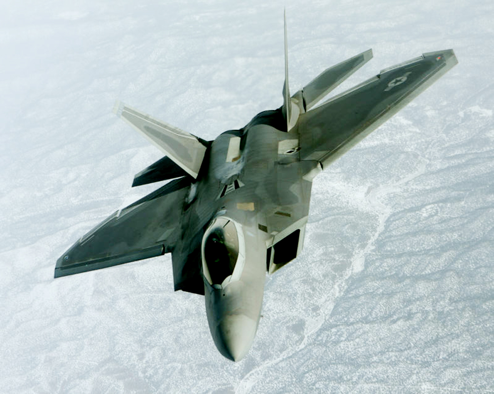 NELLIS AIR FORCE BASE, Nev.-- An F-22 Raptor from Elmendorf Air Force Base, Alaska, prepares to regroup after being refueled during Red Flag 10-2. Red Flag is a realistic combat training exercise involving the air forces of the United States and its allies. The exercise is conducted on the 15,000-square-mile Nevada Test and Training Range, north of Las Vegas.